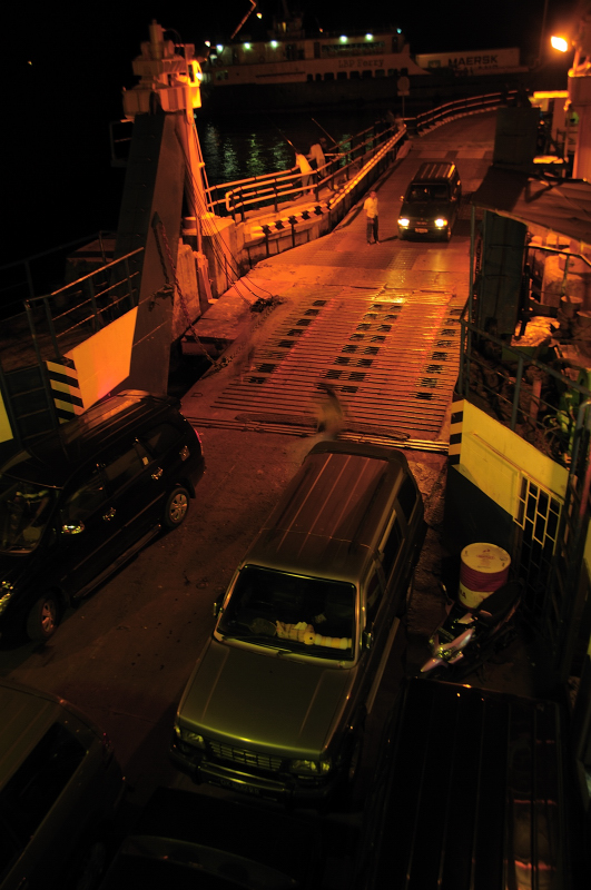 A transporting ship is loading up at Gilimanuk seaport, Bali